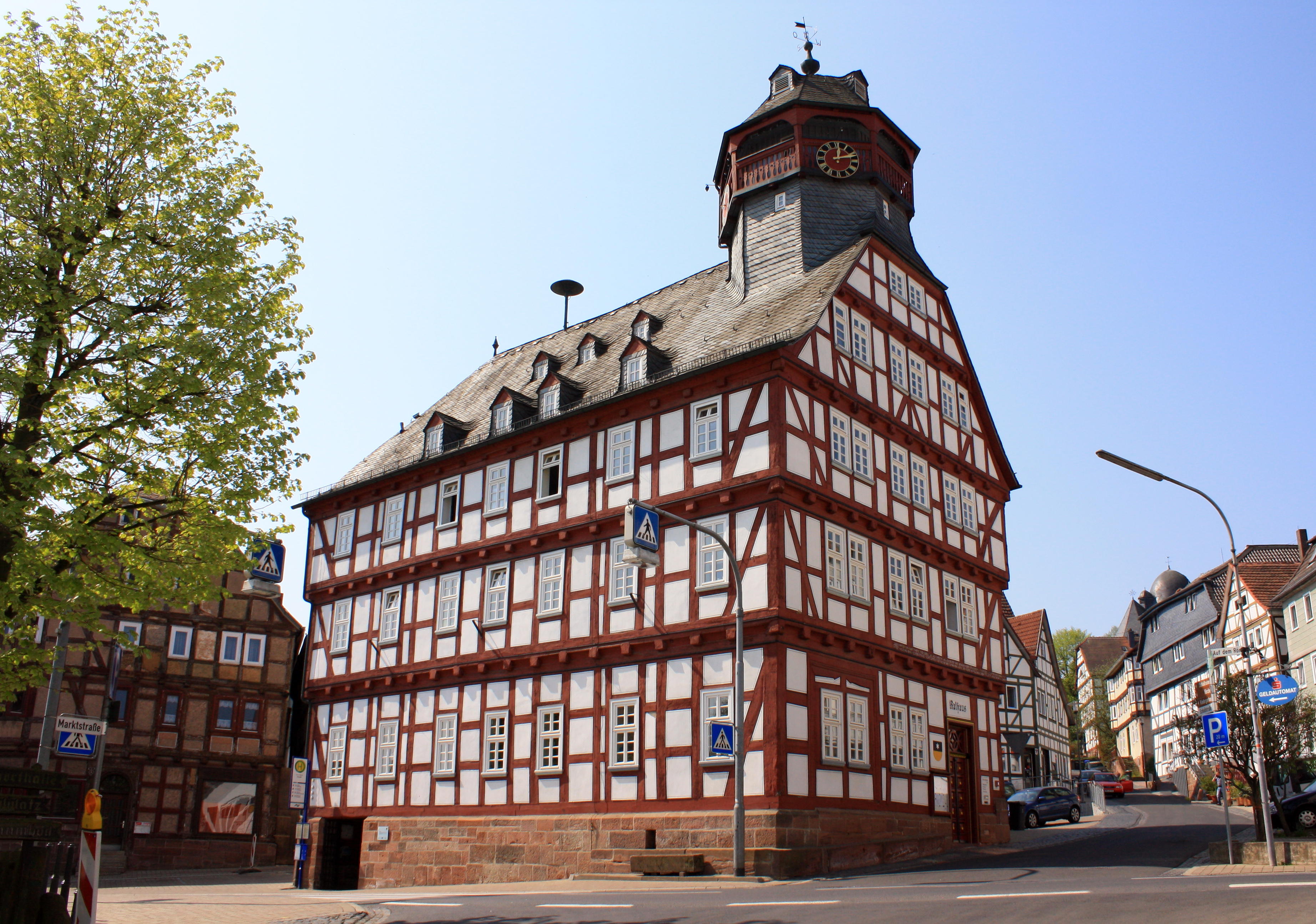 Town hall in Rauschenberg